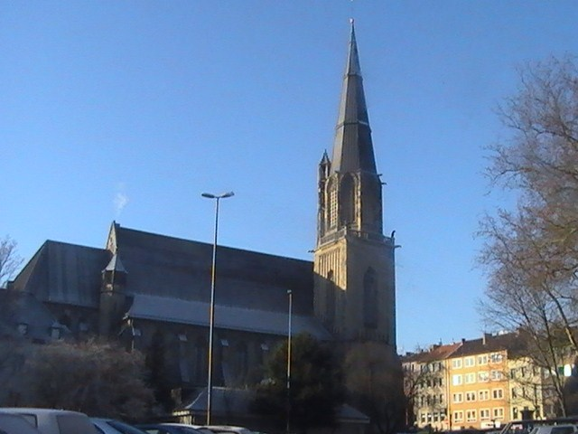 Church St. Elisabeth at Blücherplatz in Aachen in 2007.